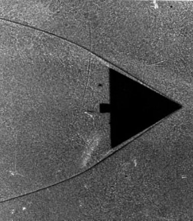 Schlieren photography